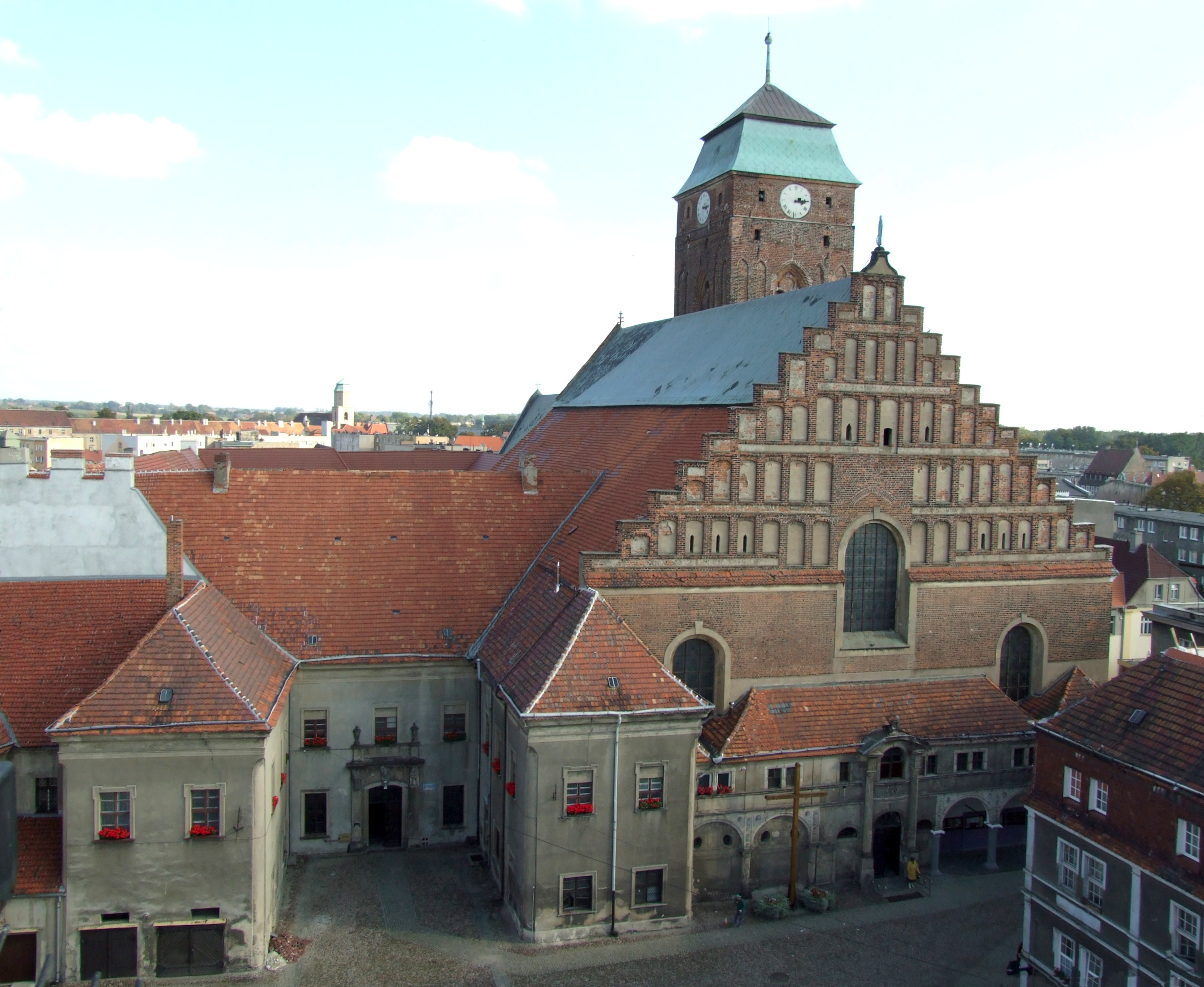 Church of the Assumption in Żagań (post augustinian church)